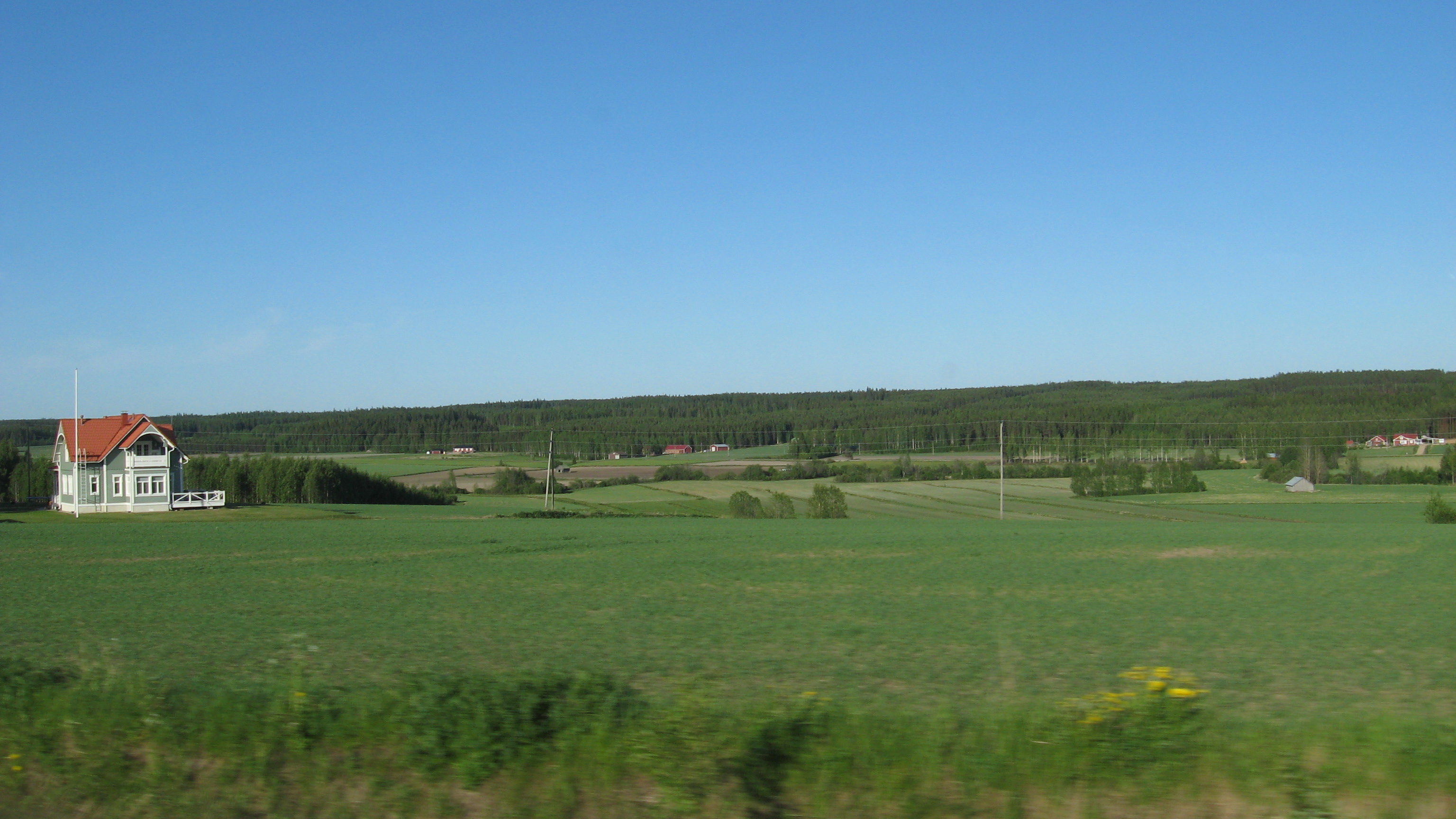 Hyypänjokilaakso valley in Hyyppä village, Kauhajoki, Finland.